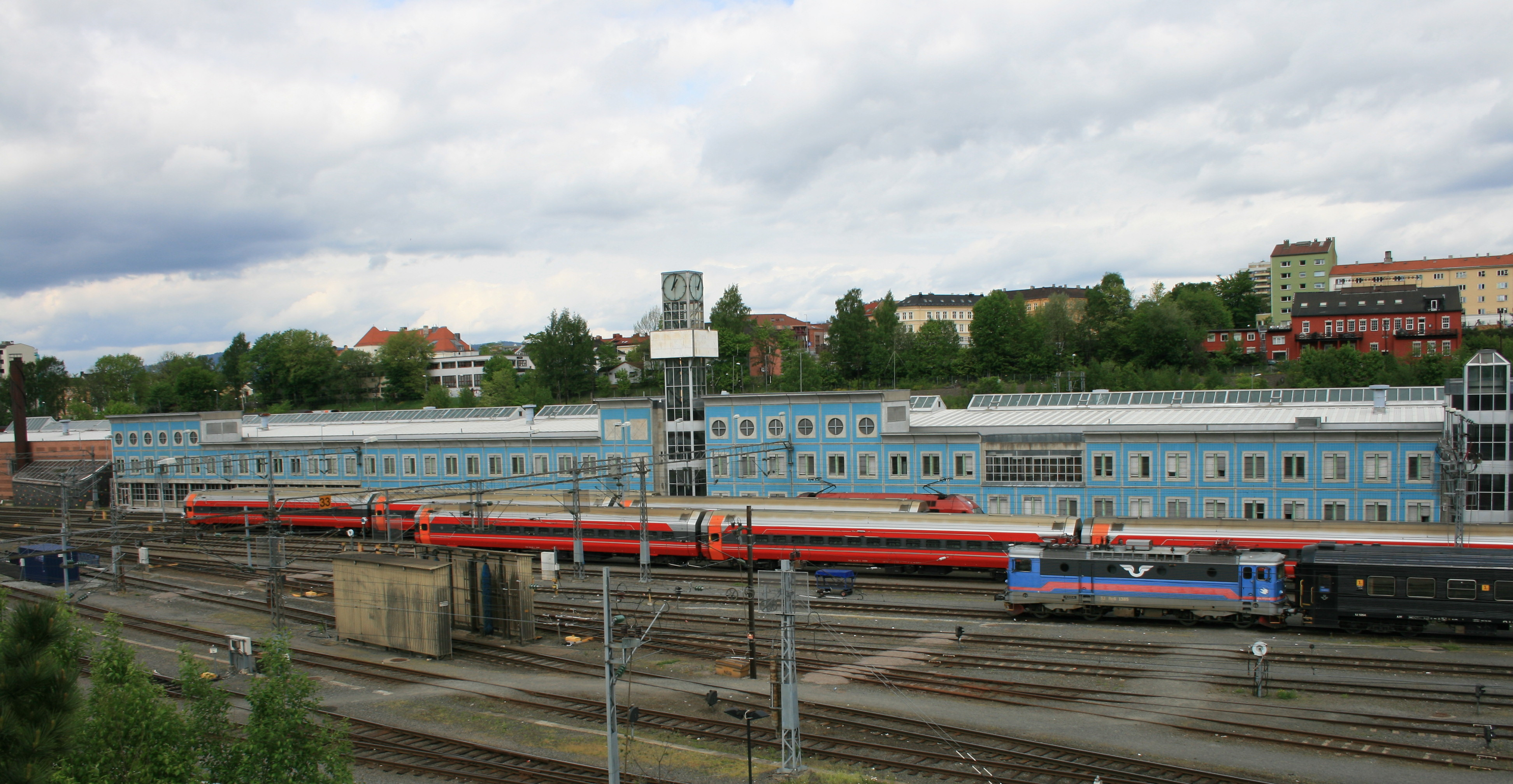 Railway shed at Lodalen, Oslo. Designed by Arne Henriksen for NSB Arkitektkontor. Awarded Houens Fund Certificate for outstanding architecture, 1991.